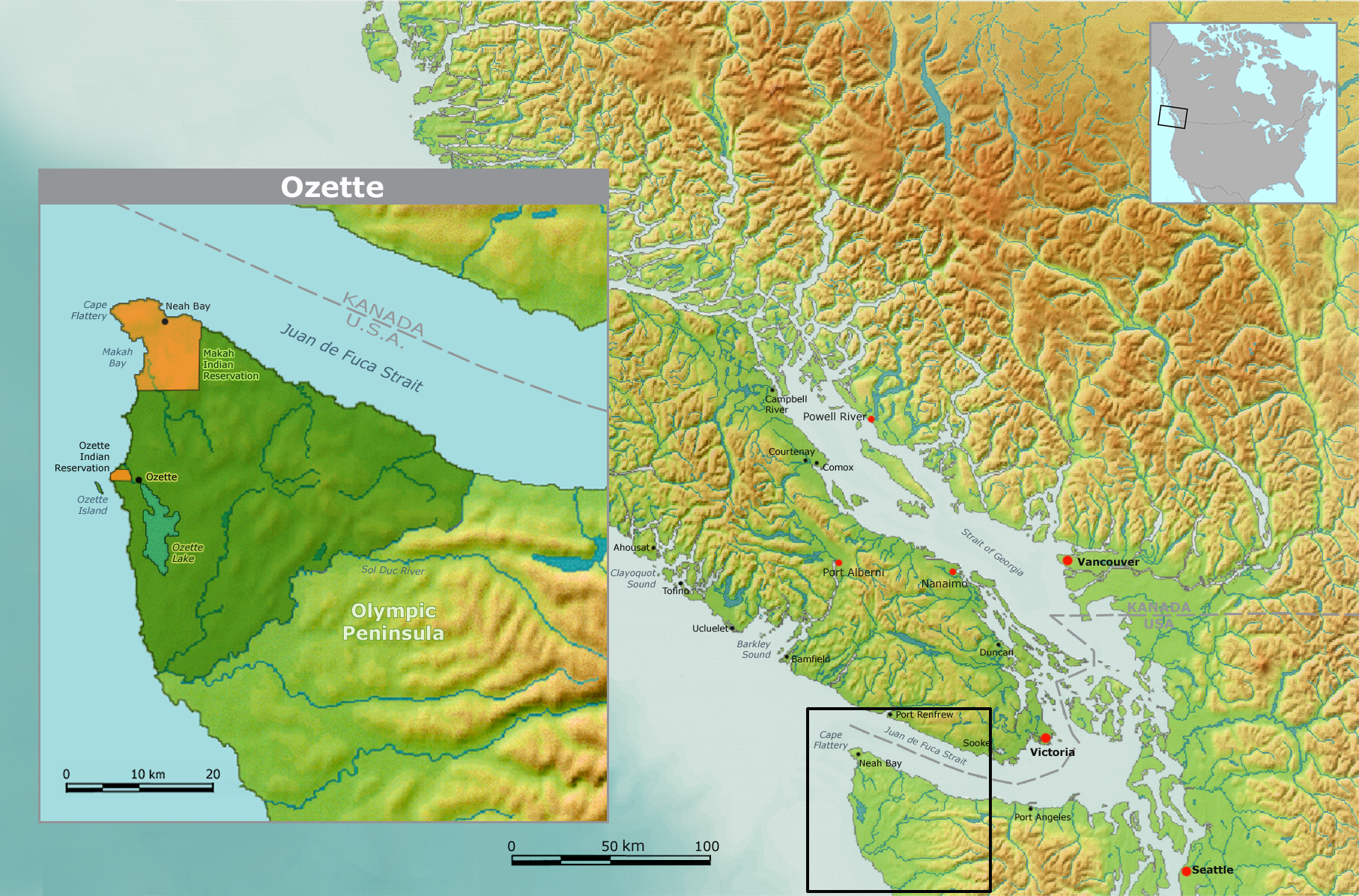 Map of Ozette traditional tribal territory and reservation